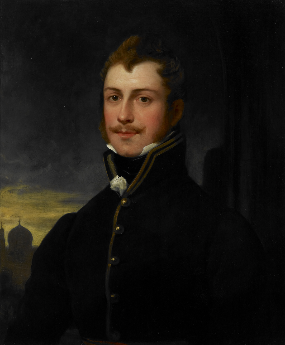 Claudius James Rich (1787–1820)